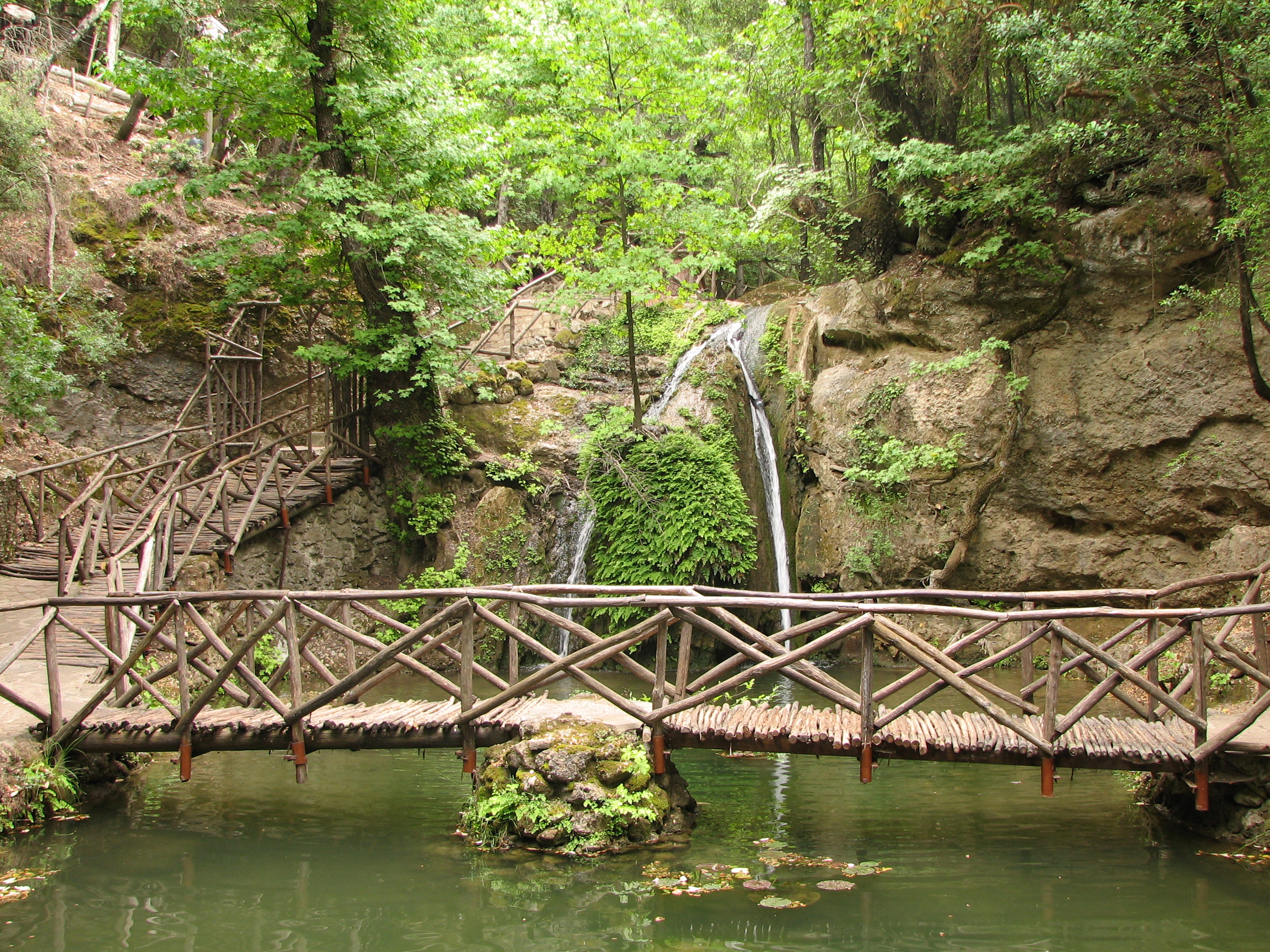 The valley of butterflies, Rhodes, Greece